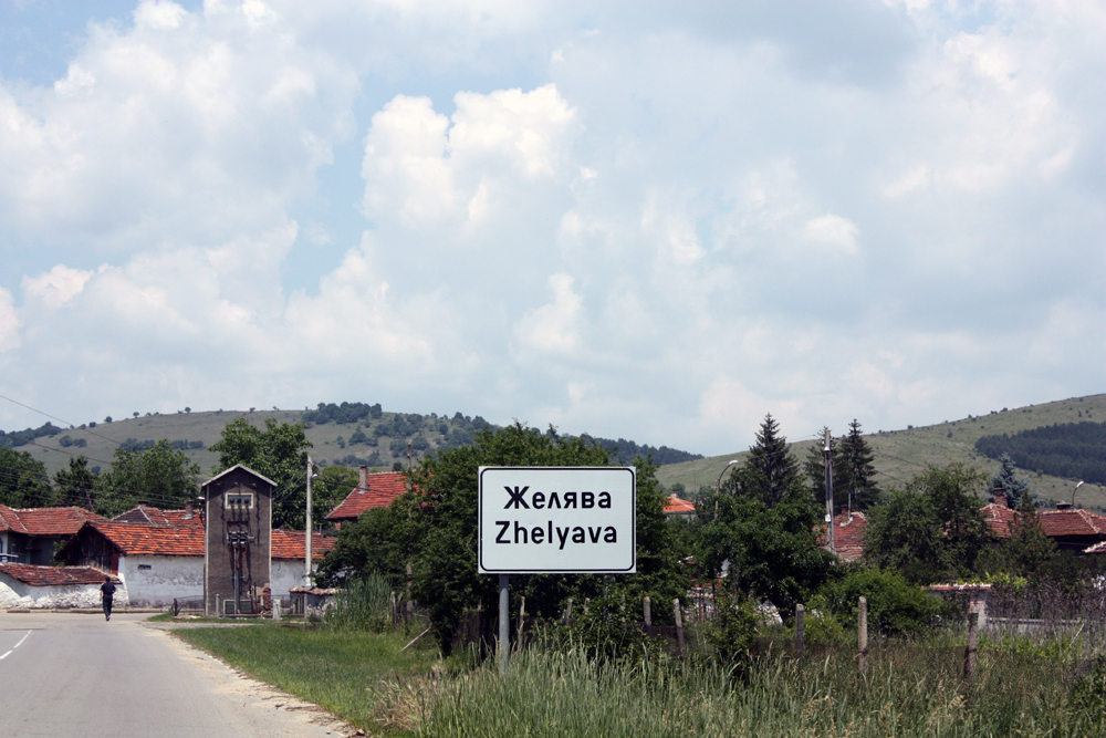 Entrance to Zhelyava village